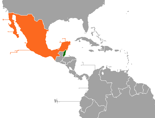 Map showing location of Belize and Mexico